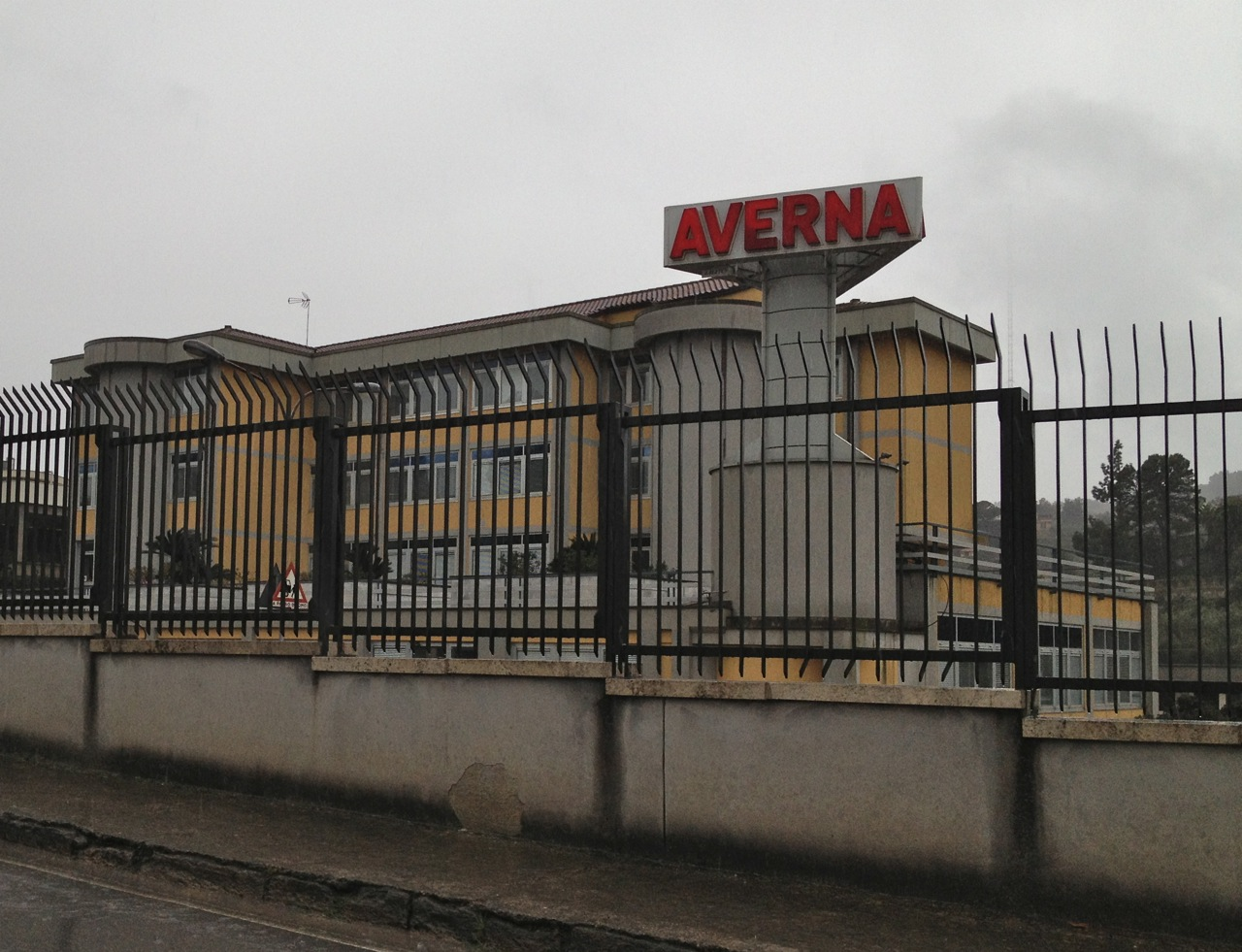 Fratelli Averna factory building in Caltanissetta Sicily